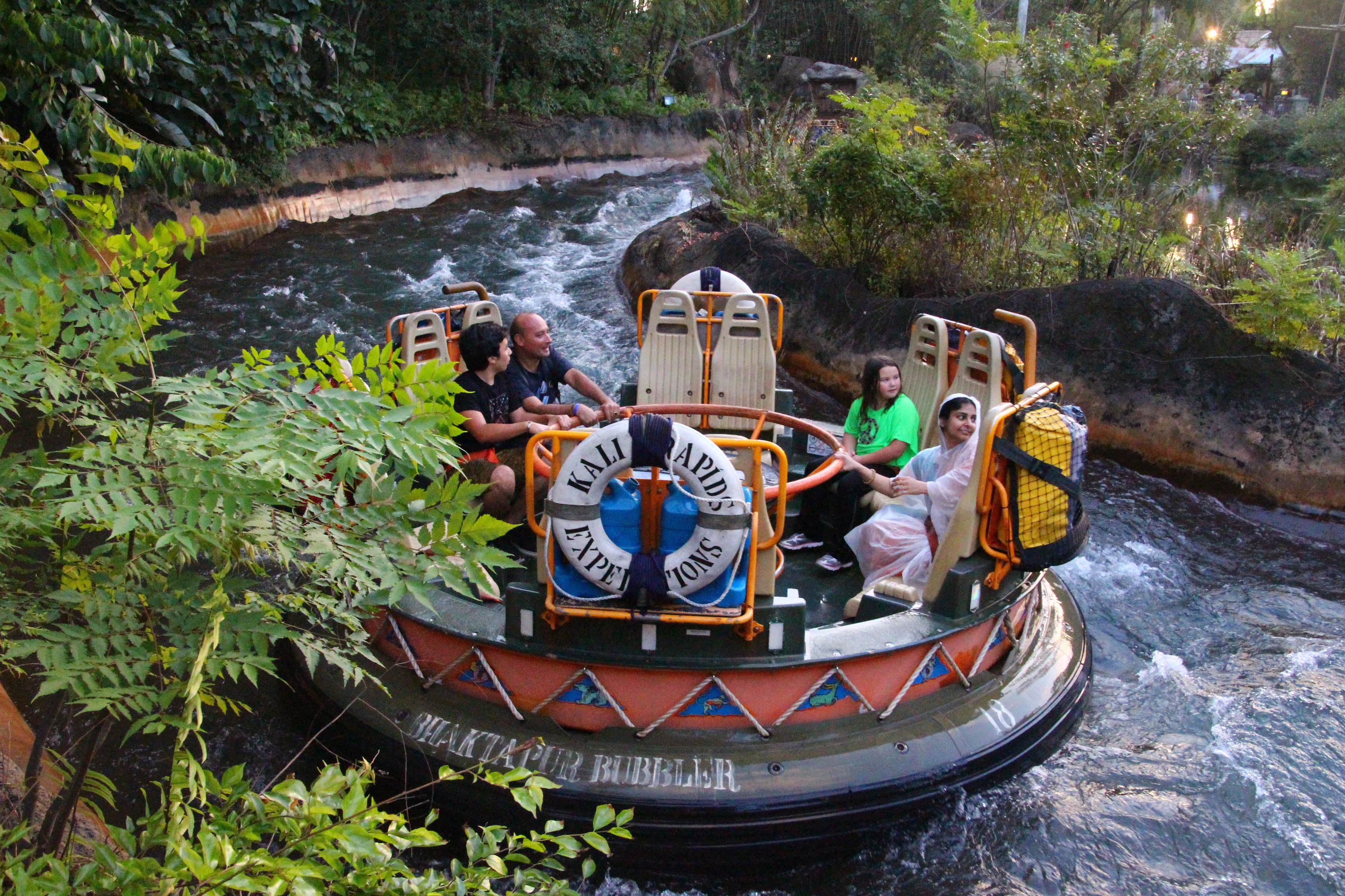 Kali River Rapids ride at Disney's Animal Kingdom theme park in Orlando, Florida.